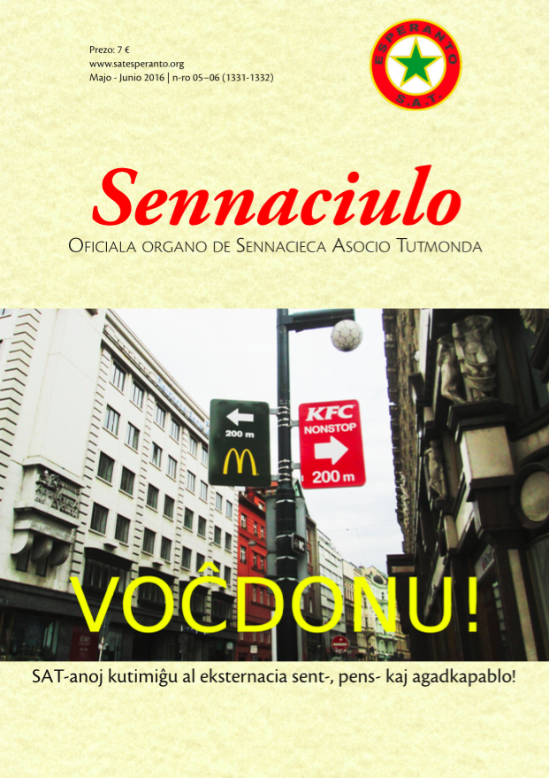 Cover page of “Sennaciulo”, May/June 2016